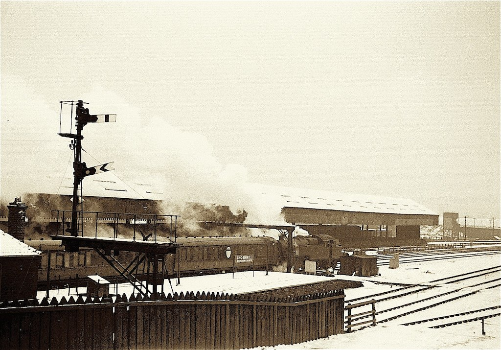 Thornhill station